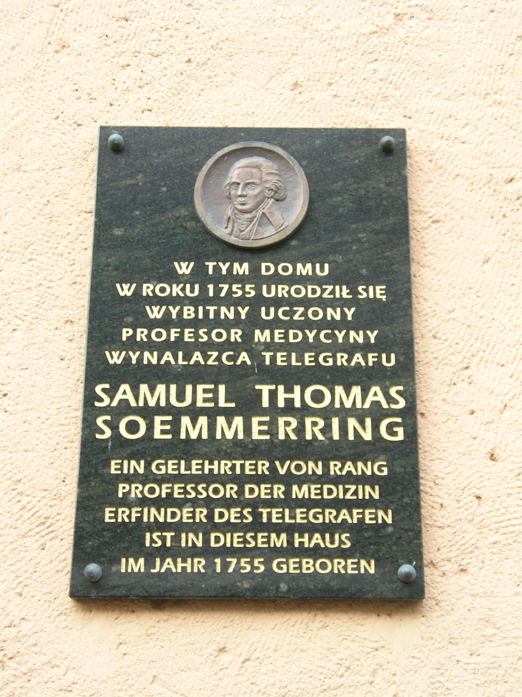 Samuel Soemmerring memorial desk in his childhook house in Toruń.